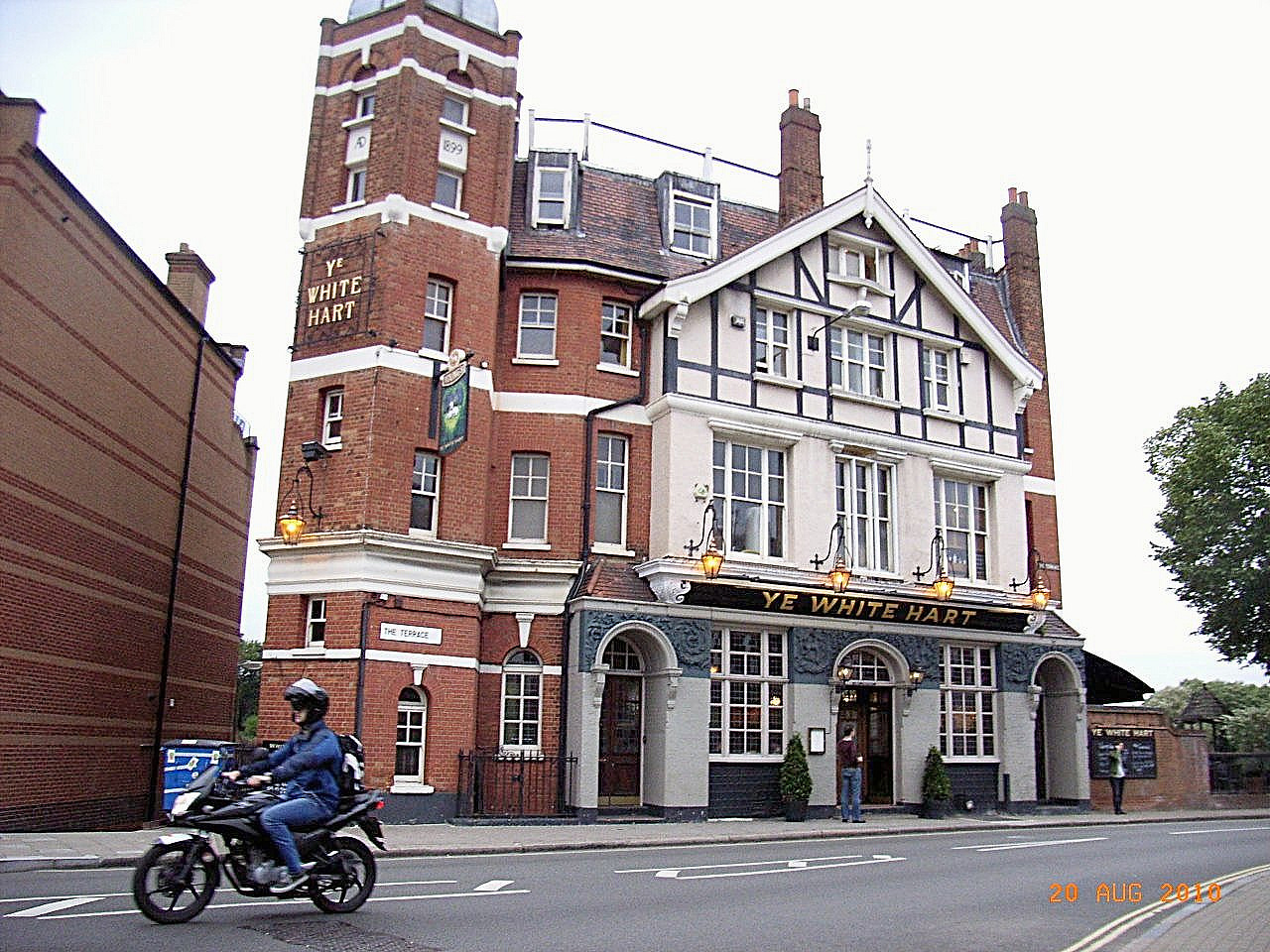 London-Barnes: White Hart pub, "landside", near Barnes Bridge; August 2010